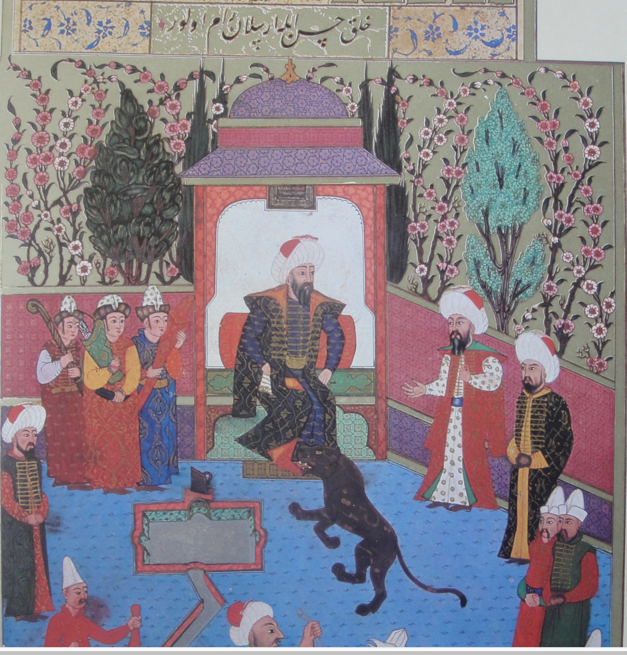 Osman Gazi (I)